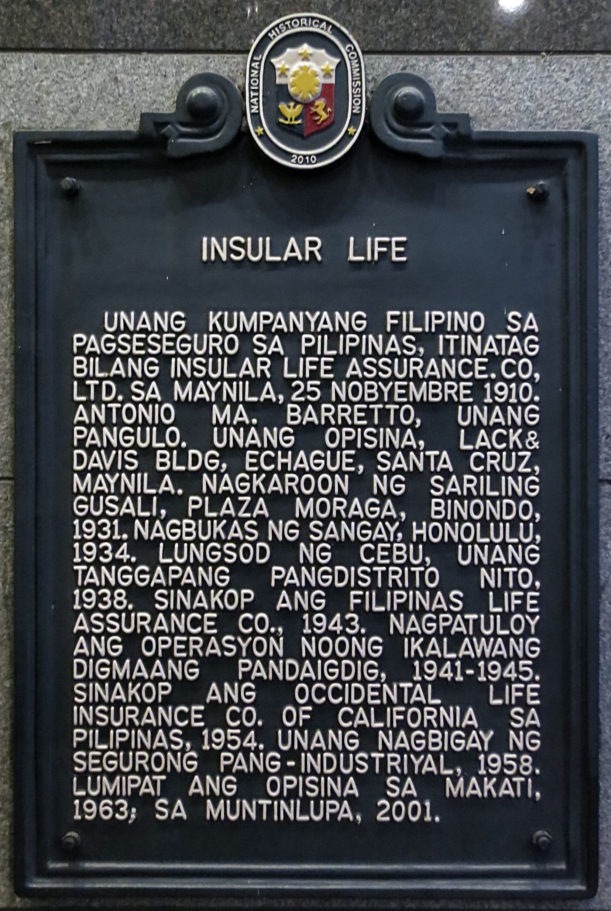 Historical marker installed by the National Historical Commission of the Philippines commemorating Insular Life.